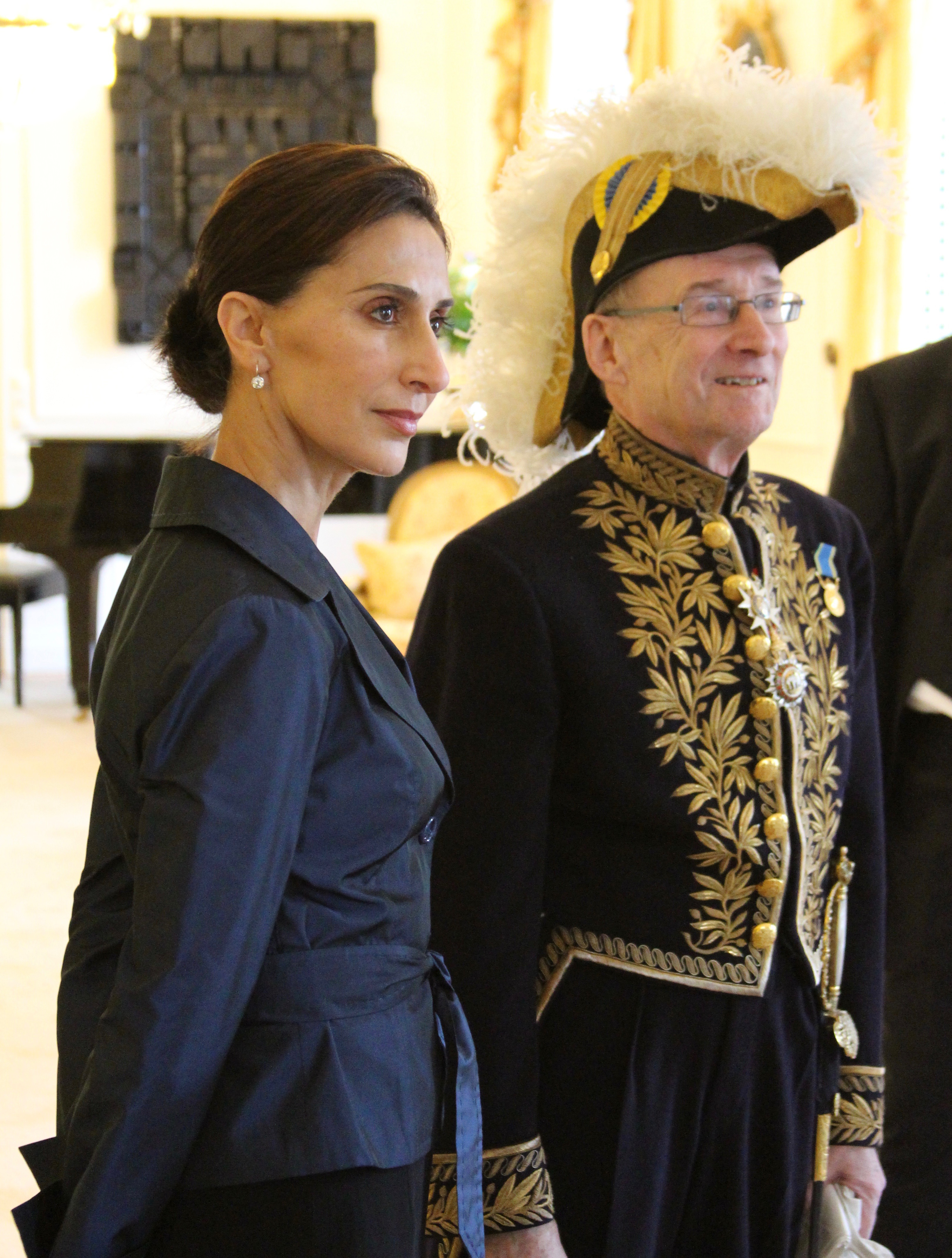 U.S. Ambassador to Sweden Azita Raji presented her credentials to King Carl XVI Gustaf of Sweden. With this, she is now officially allowed to execute her office in Sweden. Congratulations Ambassador Raji!